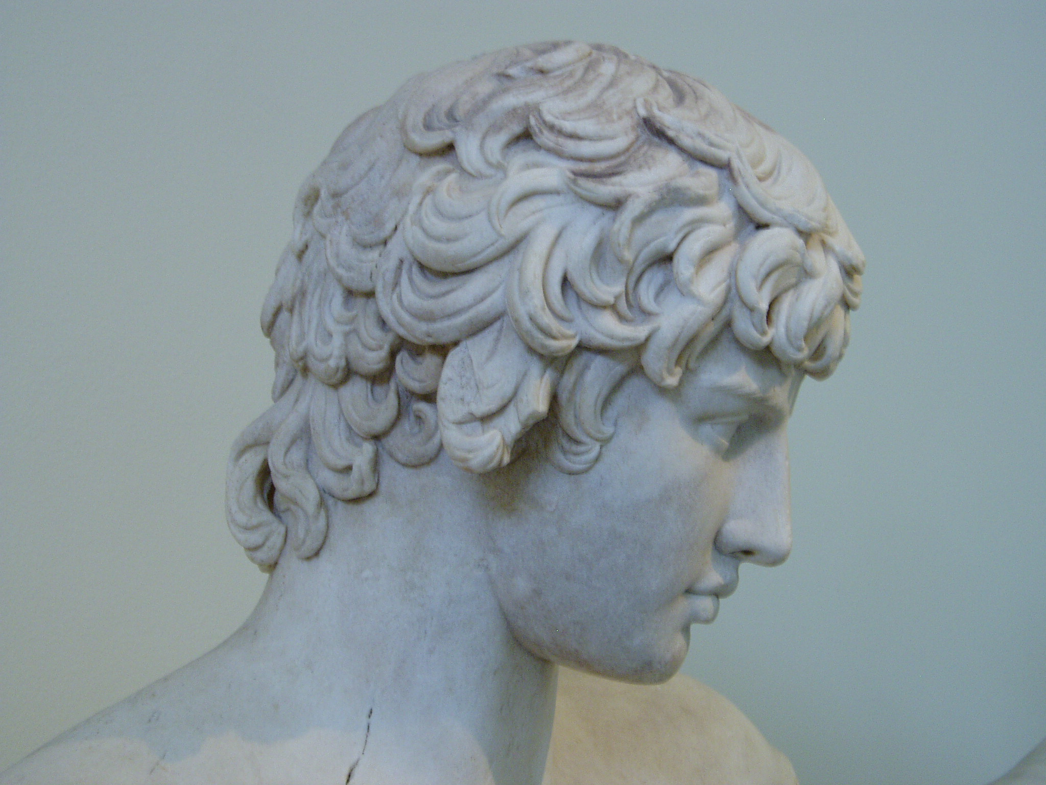 Detail of the Ancient Roman bust of Antinous. Hadrian age ((AD 117-138),National Archaeological Museum in Athens, Room 32.